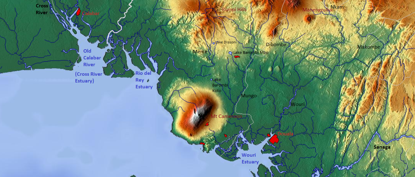 Cameroon coast with its estuarys, mountens and rivers OSM